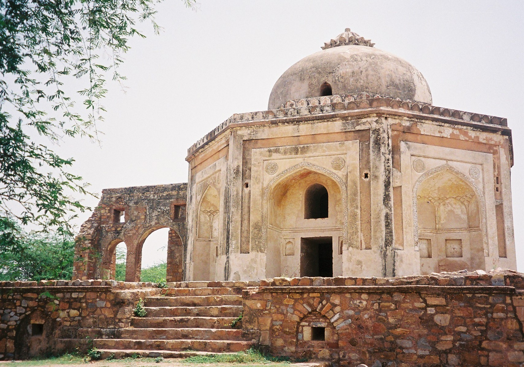 Metcalfes Dilkhusha at Qutub complex